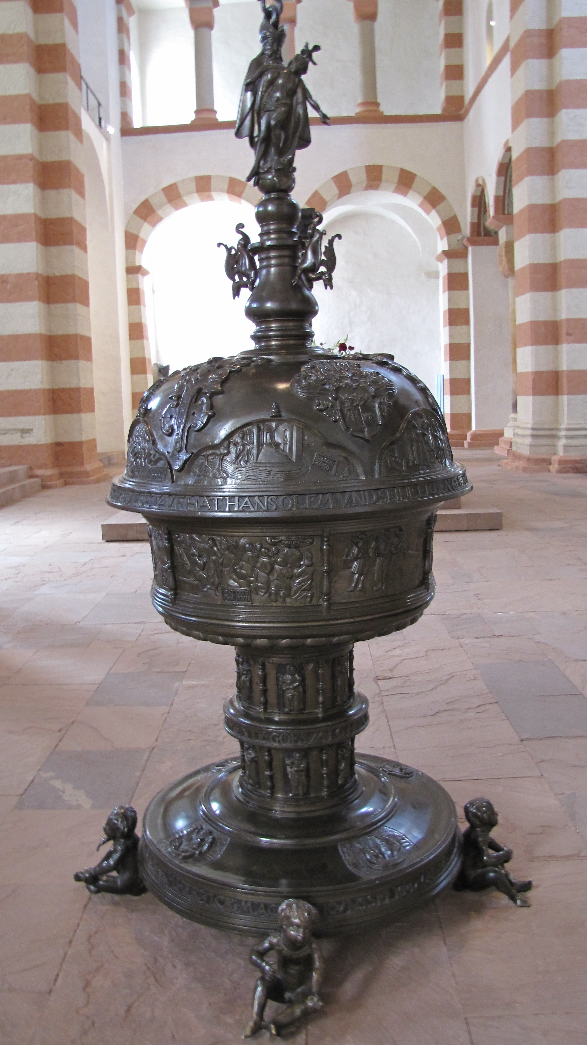 Bronze baptismal font in St. Michael's Church, Hildesheim, cast by Dietrich Mente in 1618